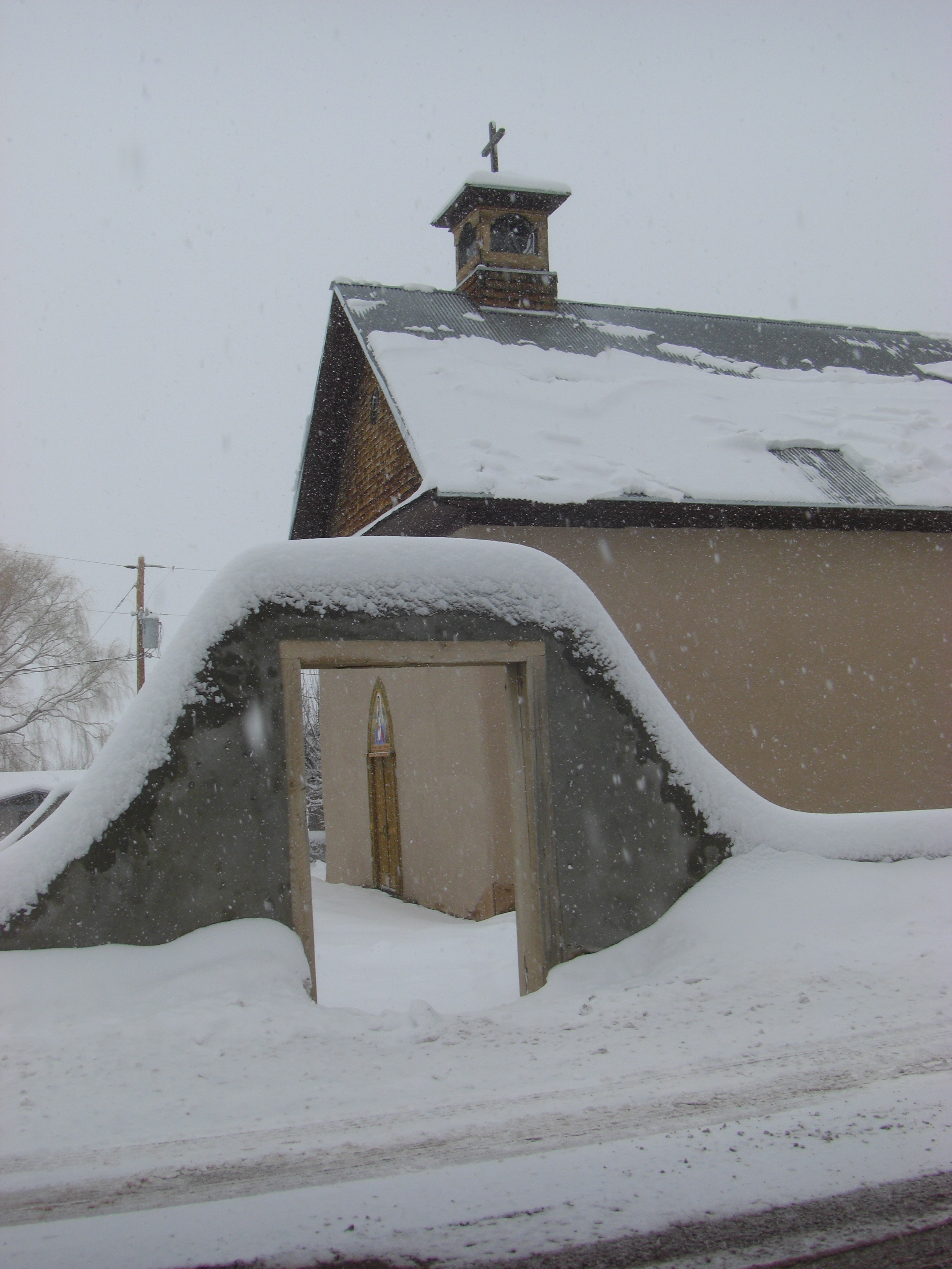 Church in Arroyo Hondo, winter 2007.